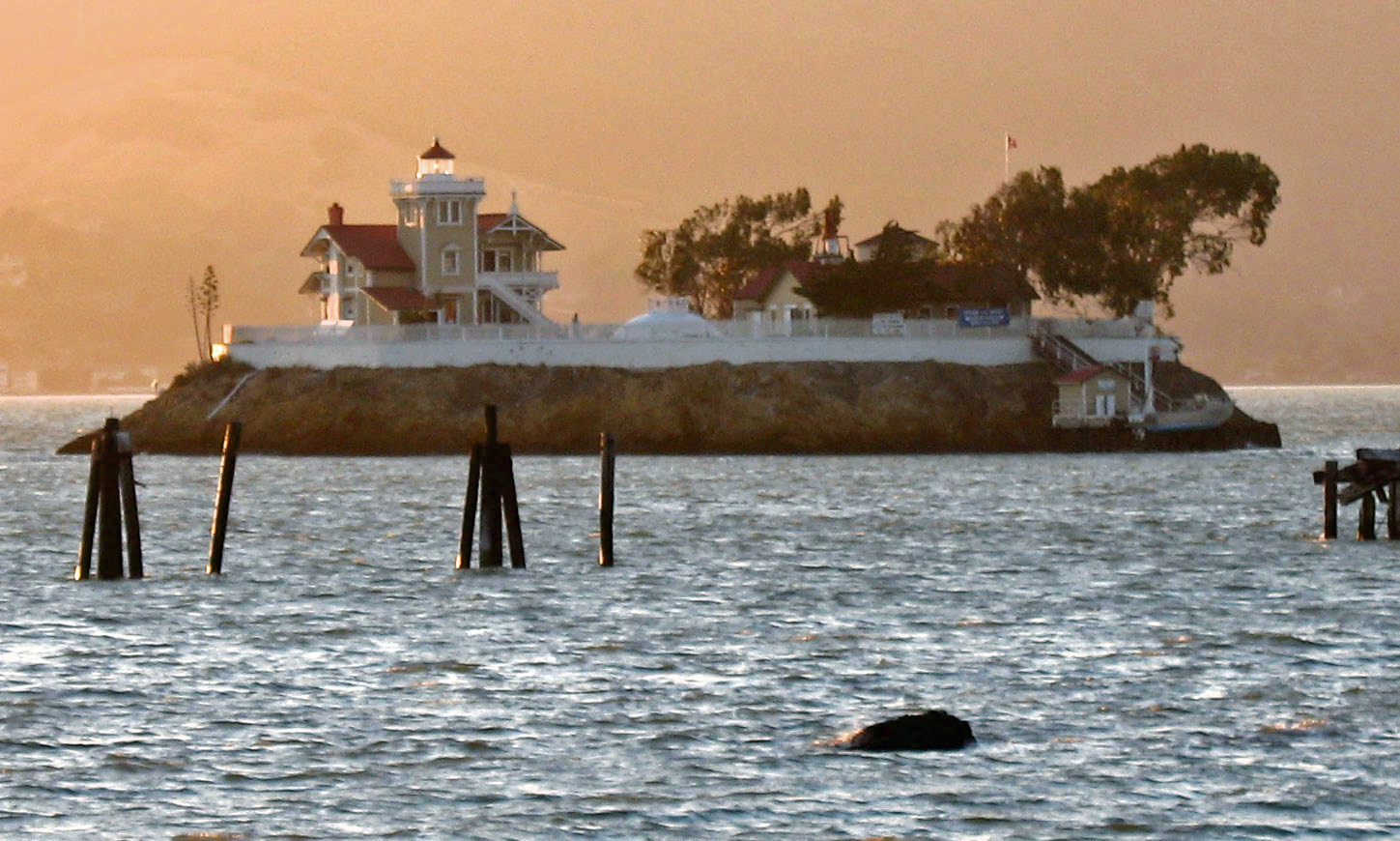 National Register of Historic Places listings in Contra Costa County, California. East Brother Light Station, East Brother Island, west of Point San Pablo, Richmond, California, USA. Photographed 2008-09-21 from the west side of Western Dr. - OpenStreetMap(Info)